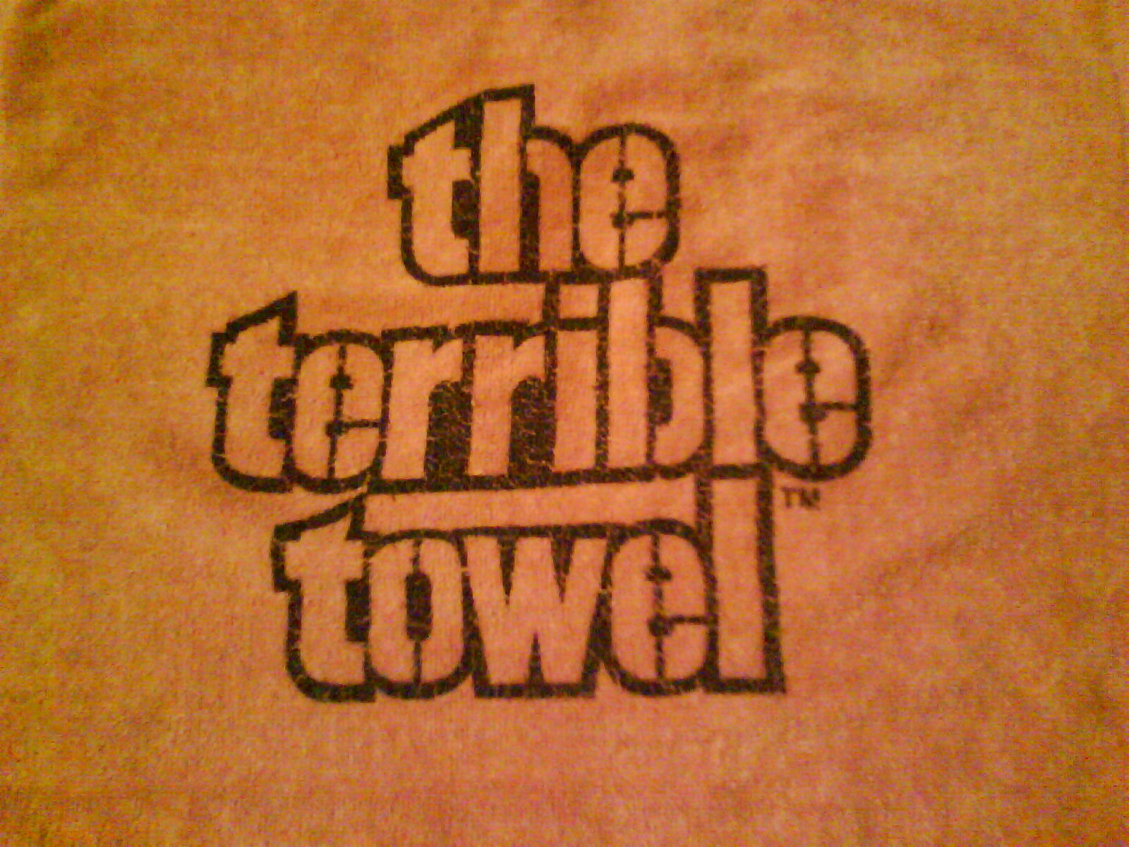 Original commercially marketed Terrible Towel, sold exclusively by Gimbel's Department Store, circa 1978. The Terrible Towel is a fan symbol associated with the Pittsburgh Steelers, an American football team in the National Football League (NFL).